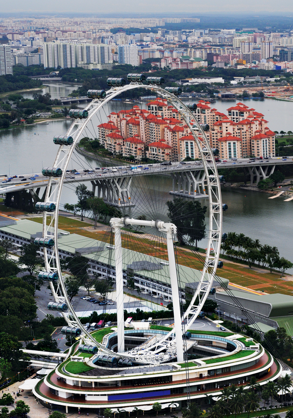 From another lookout point at Sands Sky Park, the Singapore Flyer can be seen in motion near the Kallang River. pp: The original looks oval in shape because of the angle of view. The warping tool helps to correct the flaw and adjust it a little rounder. Added "soft light" on layers at 50% opacity on CMYK mode to pump up contrast and colors